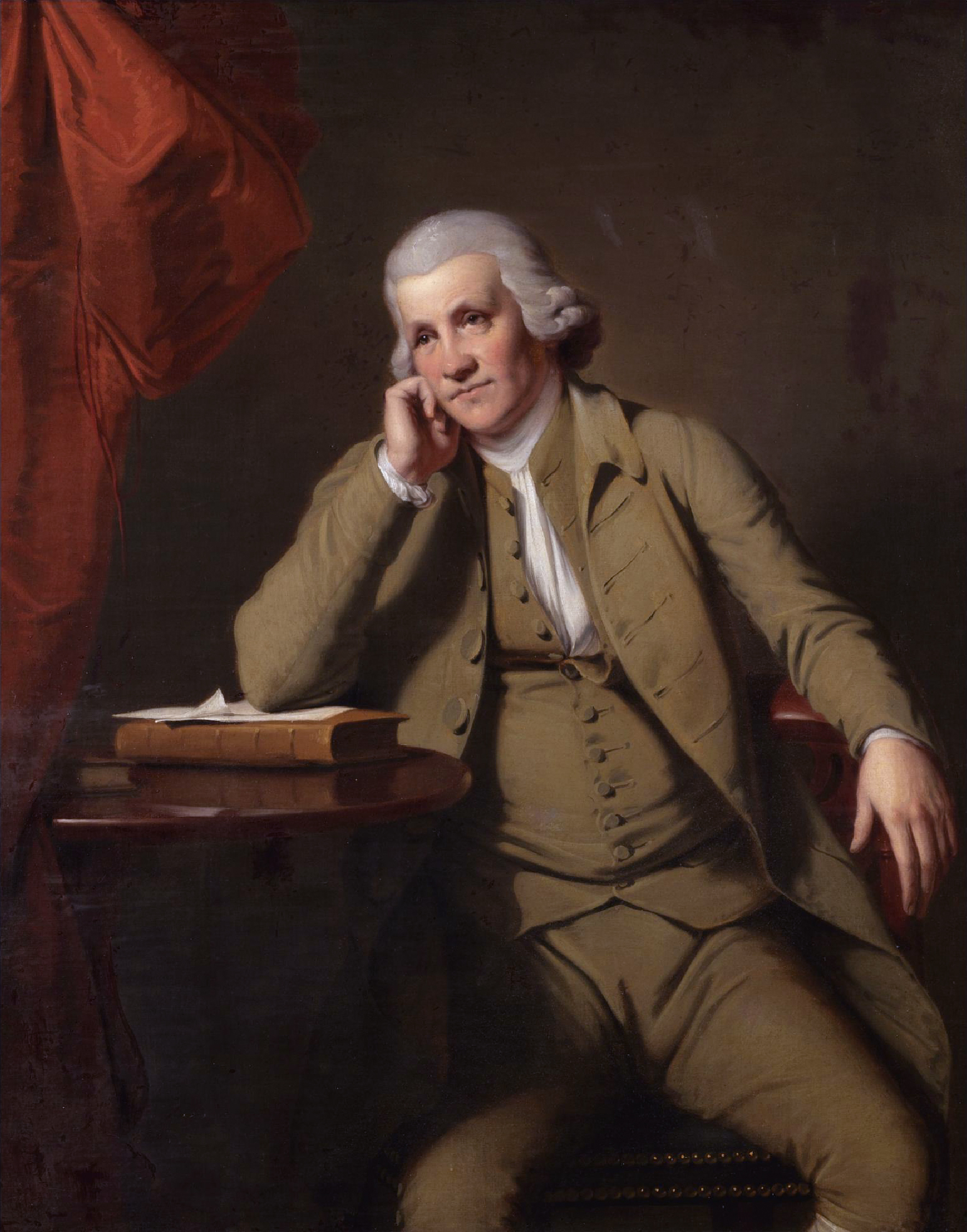 Prime version of this painting is in the Derby Art Gallery. This painting is probably painted for one of his five children